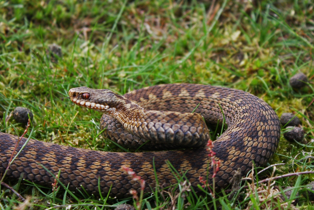 This female adder was basking in the sunshine on Thursley common in Surrey.